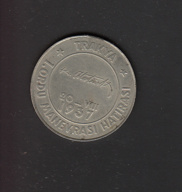 1937 Thrace Military Manouvres Momento belonging to cavalry non-commisioned officer Rıza Eratalay